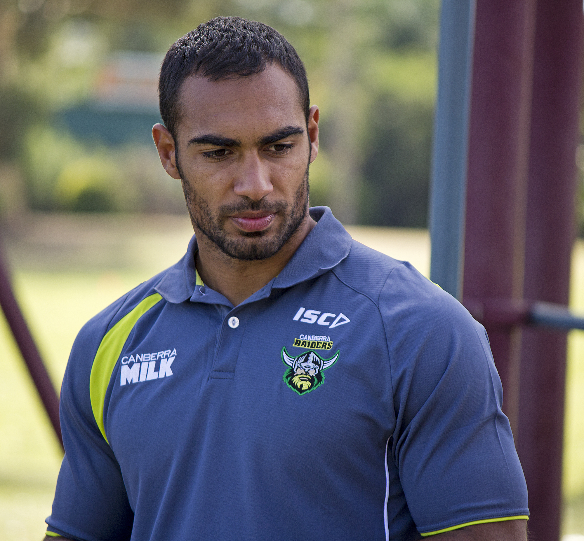 Reece Robinson, Canberra Raiders wing, at Bolton Park in Wagga Wagga, New South Wales.